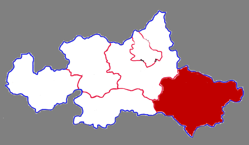 Location of Xintai county-level city in Taian City, China